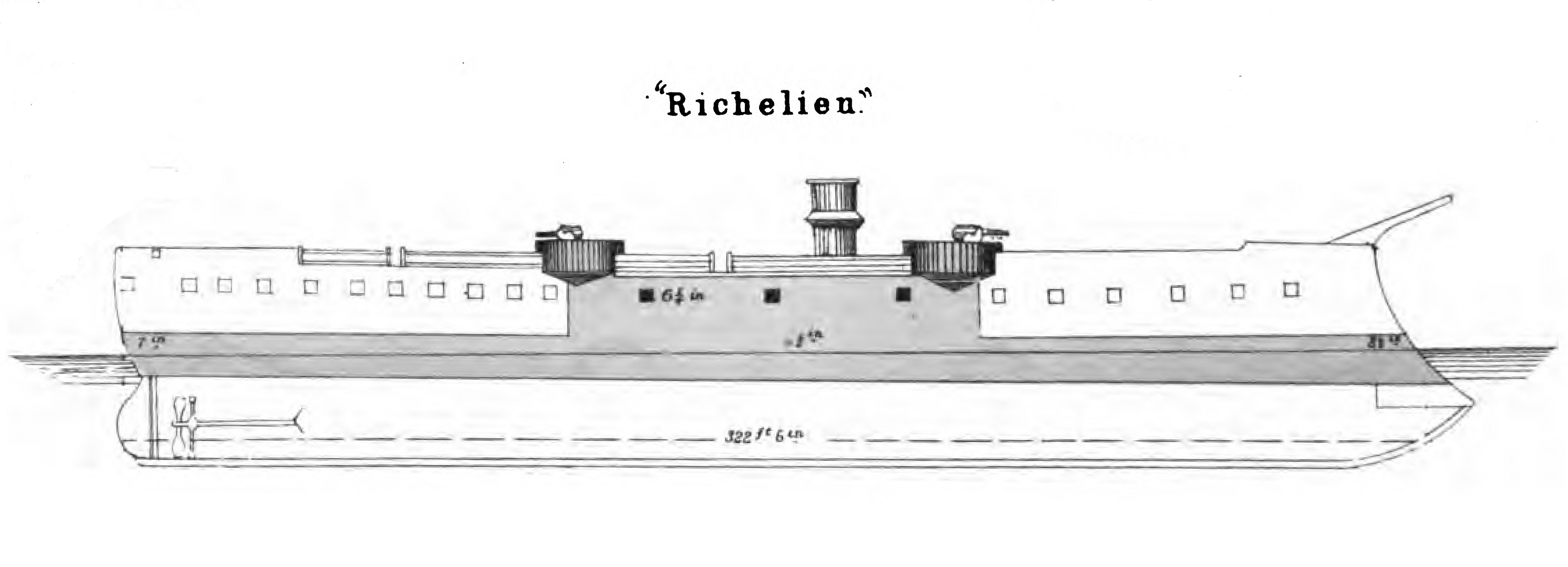 The French battleship Richelieu, launched in 1873.